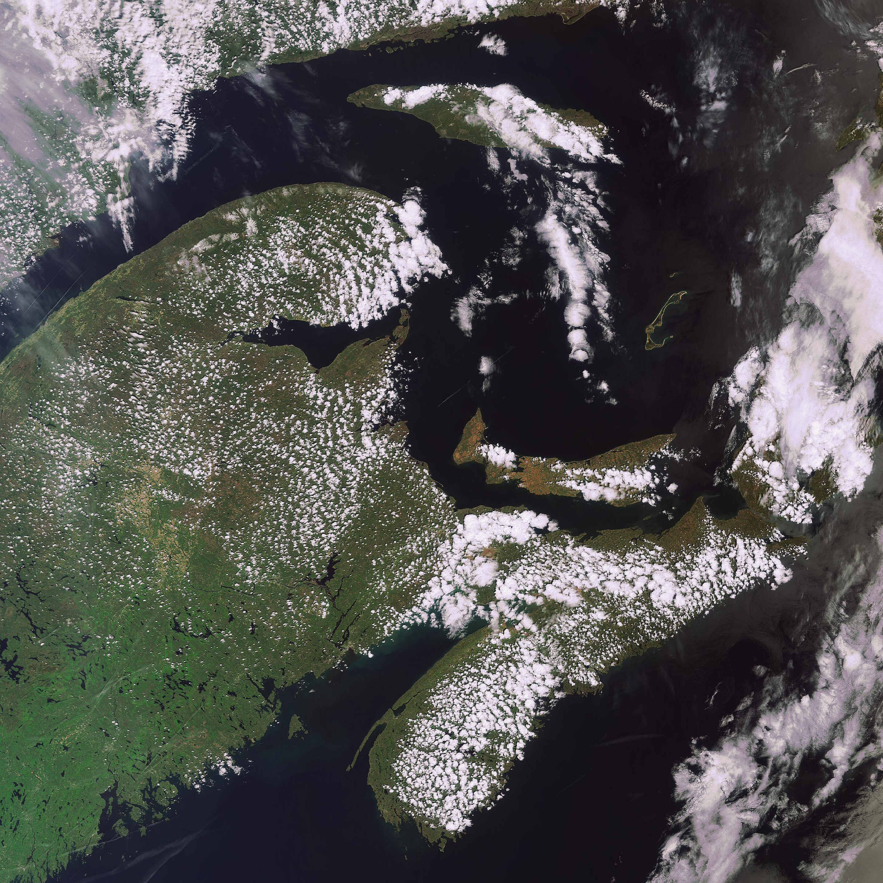 This Envisat image, acquired by the Medium Resolution Imaging Spectrometer (MERIS) instrument on 25 May 2008, highlights Canada’s three Maritime Provinces – New Brunswick (the northern area of the large mass of land left of image centre), Nova Scotia (the elongated body of land in bottom right), and the smallest of the provinces Prince Edward Island (visible to the east of New Brunswick).